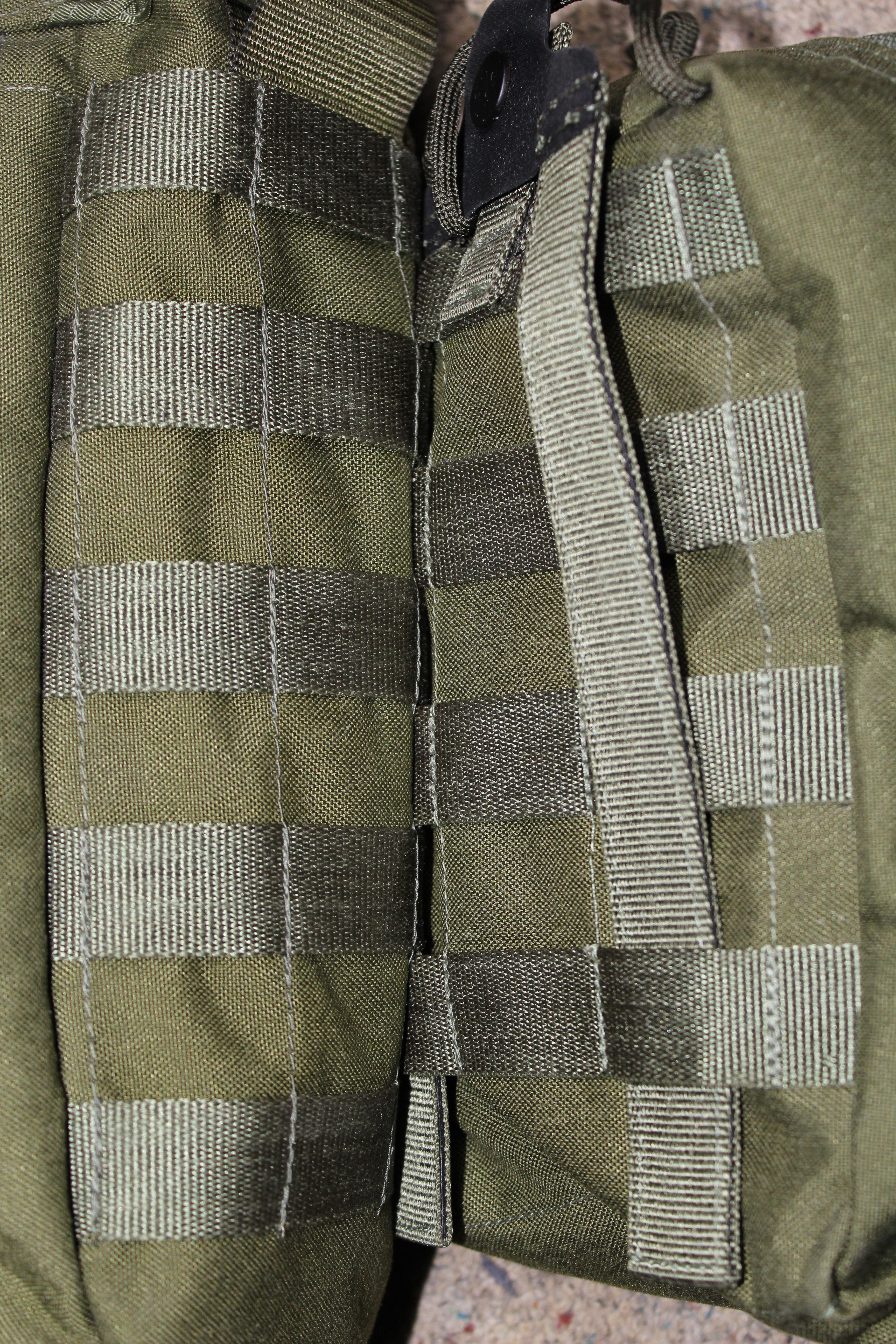 MOLLE compatible gear with quick release system